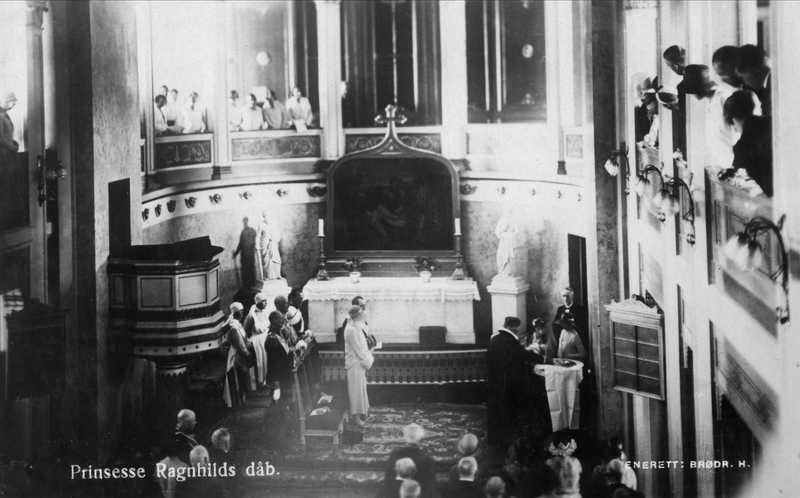 Dåp for prinsesse Ragnhild i Slottskapellet i 1930. Den første norske prinsessedåp på 629 år.